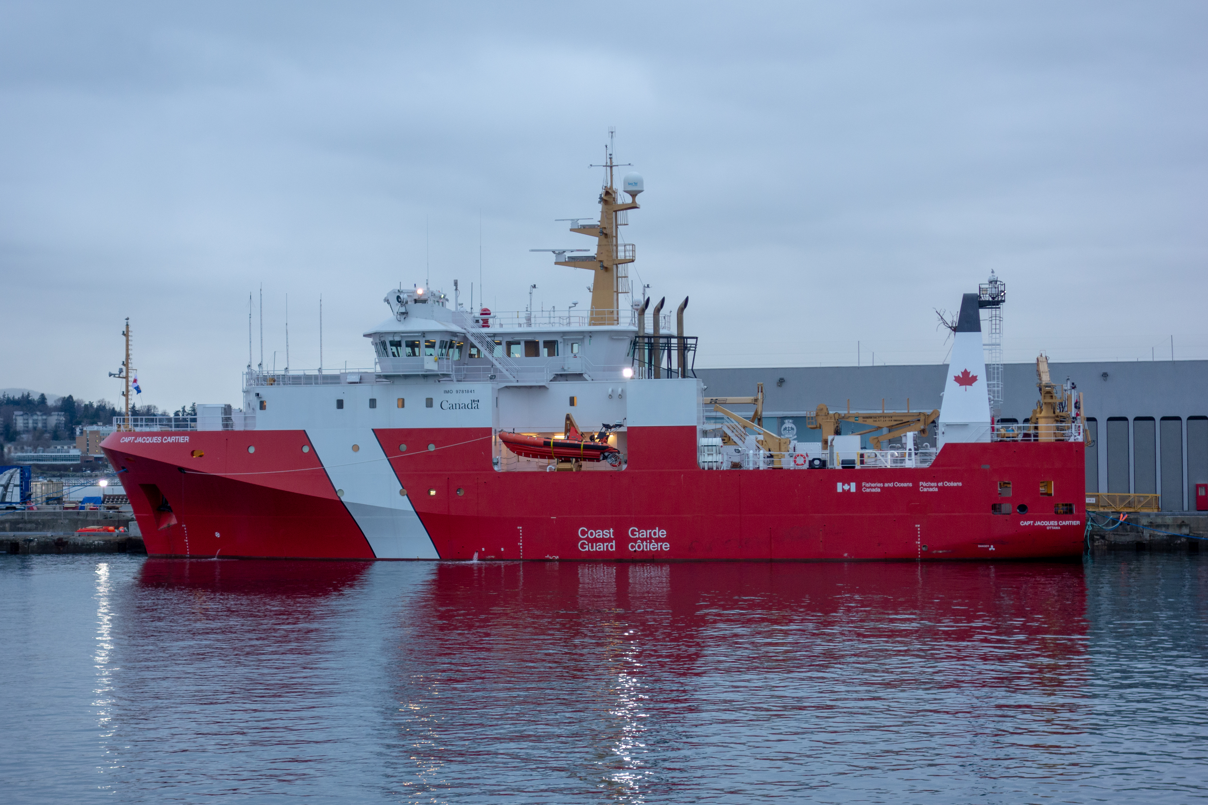 CCGS Capt. Jacques Cartier at Ogden Point in Victoria, British Columbia, 29th of December 2019.